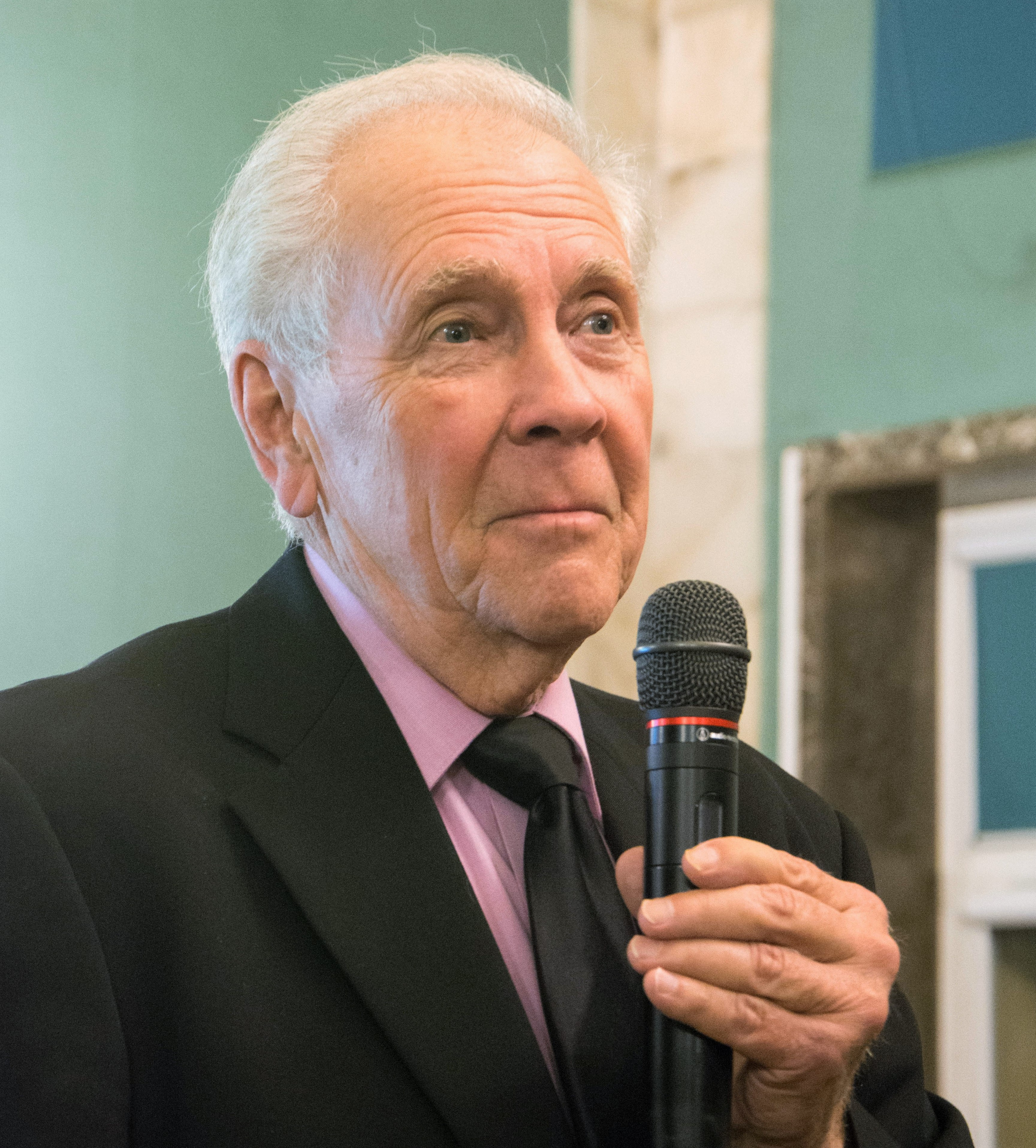 Professor Paul Cameron, American psychologist - lecture on: LGBT is a threat to civilization, Provincial Culture Center in Kielce, 14/11/2019